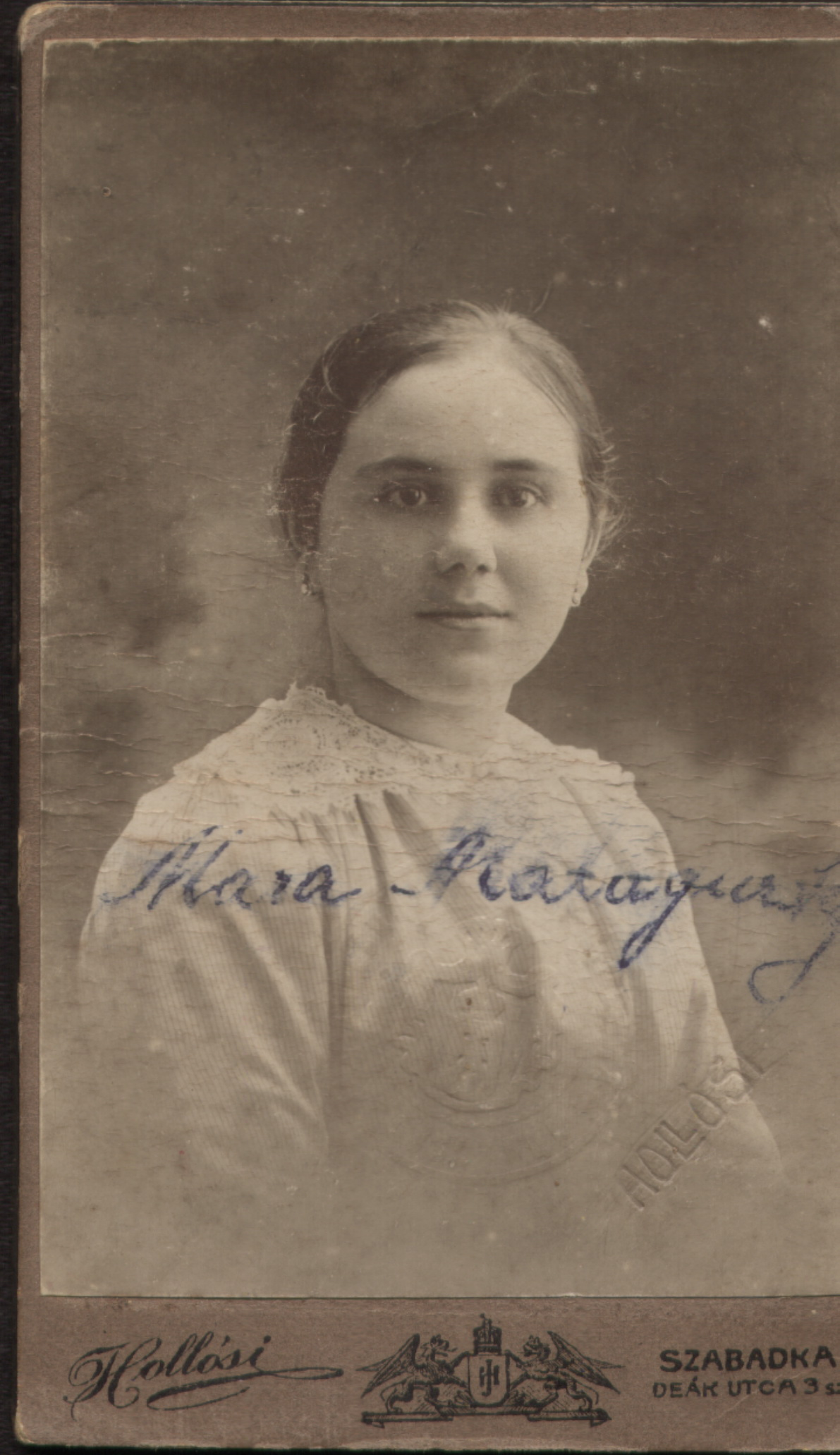 The Serbian writer Mara Malagurski when she was in young ages.